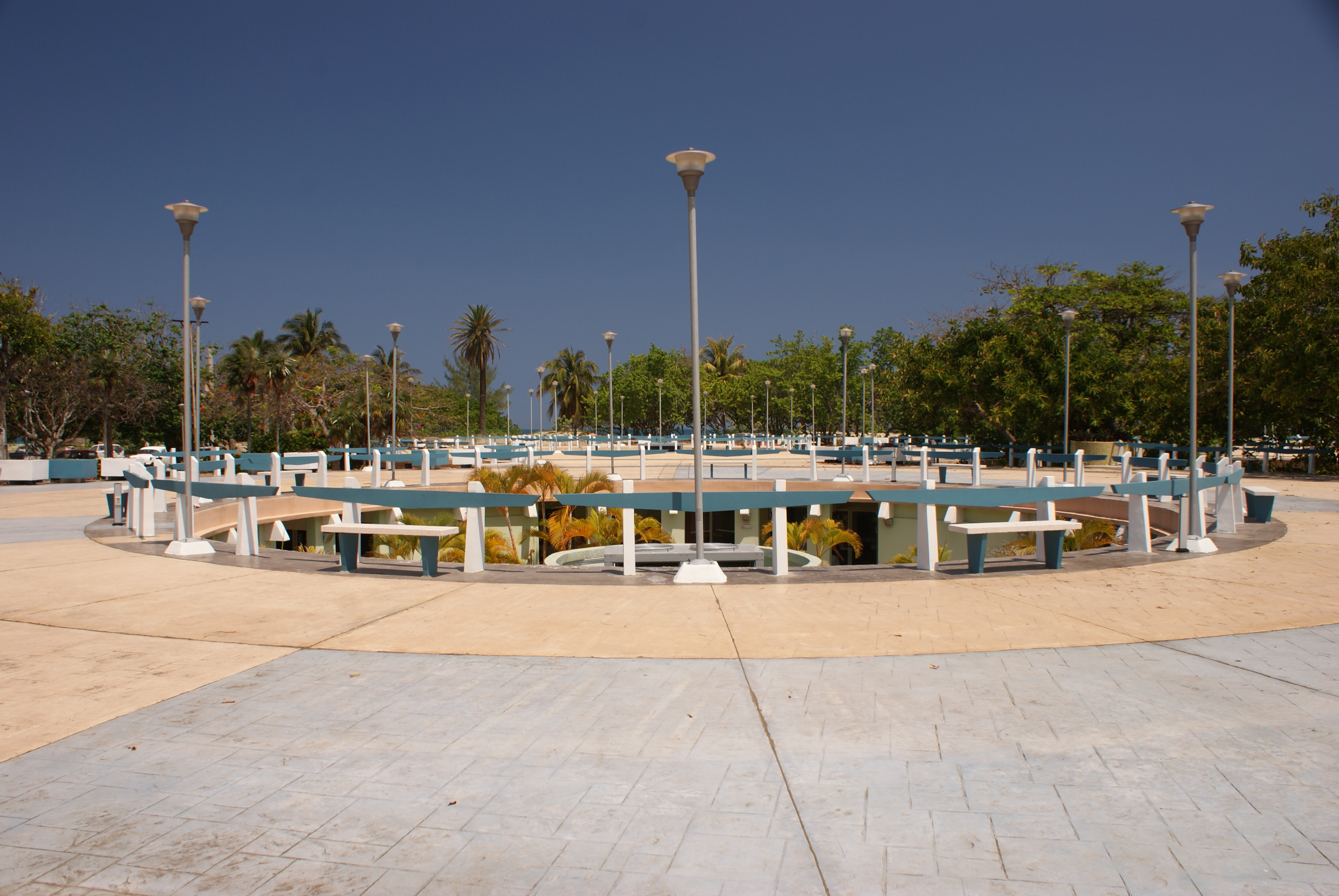 Parque de las 8000 taquillas - Coppelia de Varadero